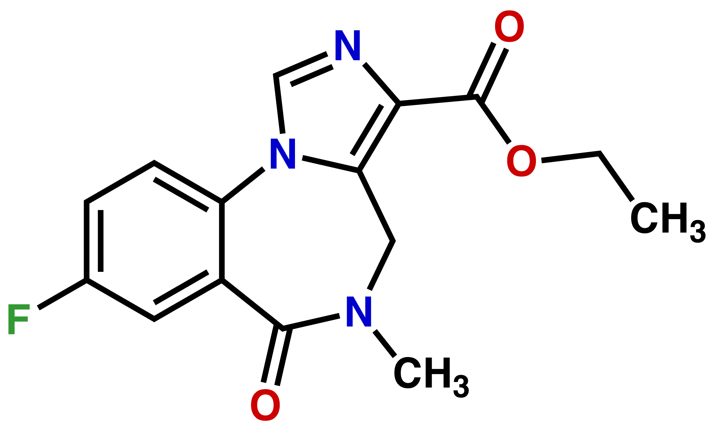 Chemical structure of Flumazenil